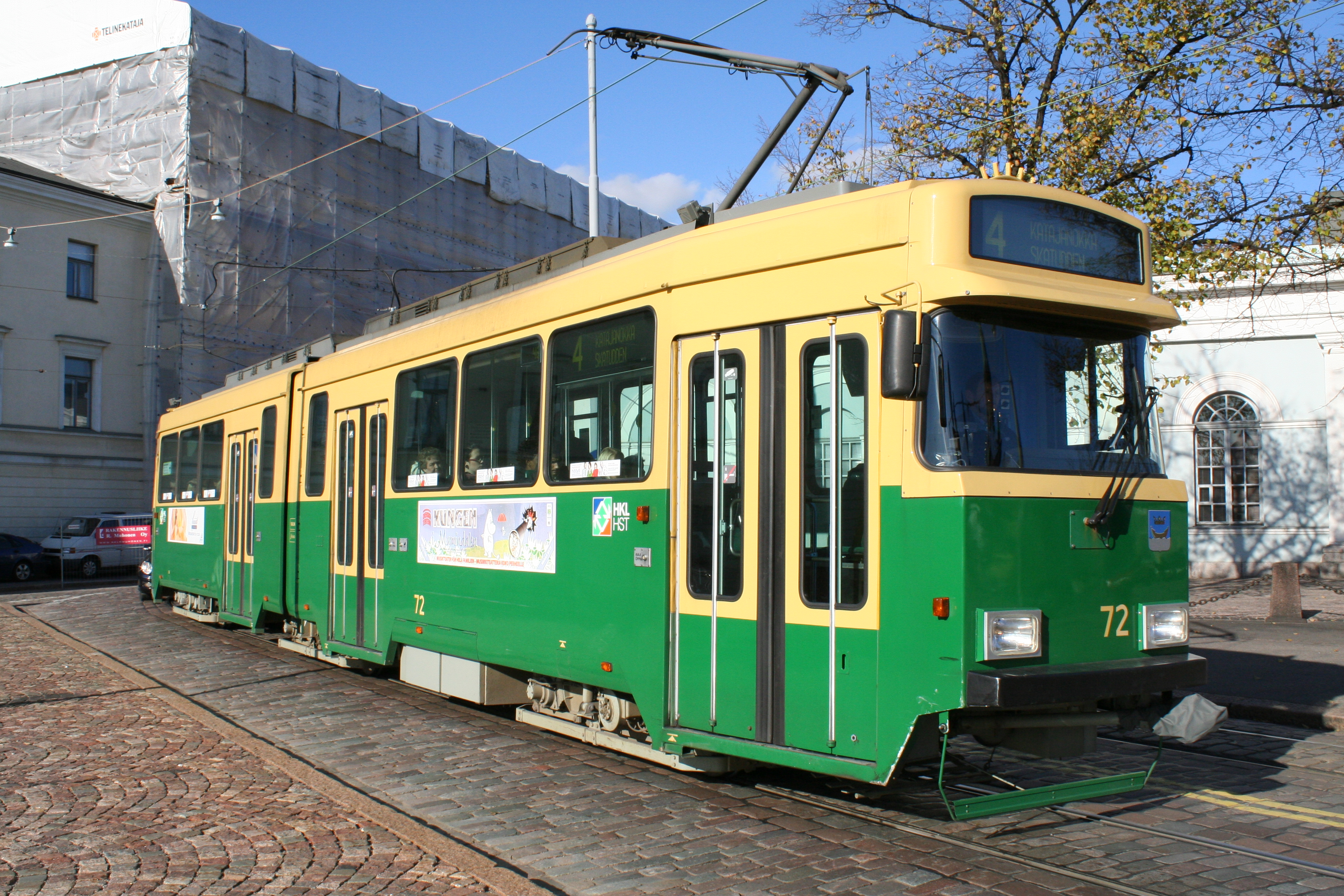 Helsinki City Transport tram number 72, type Valmet Nr II, on line 4 in front of the Main Guard Building in Helsinki. Number 72 is as of 2008 one of three Nr II units with a remodeled windshield.